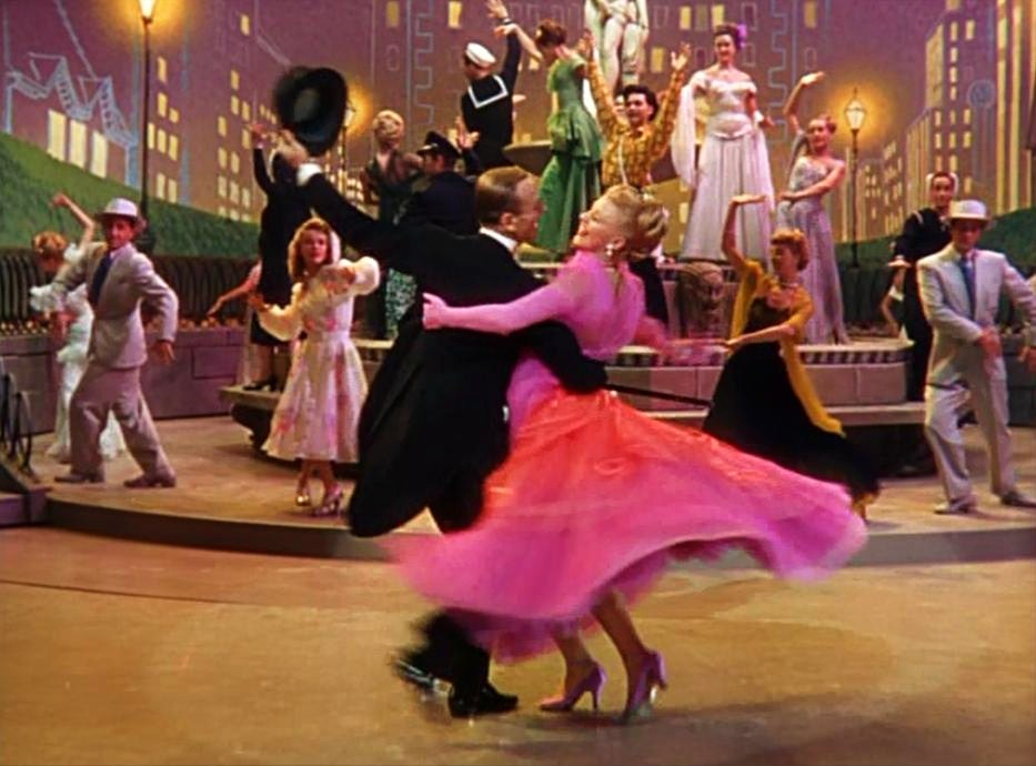 Fred Astaire & Ginger Rogers in The Barkleys of Broadway - trailer (cropped screenshot)